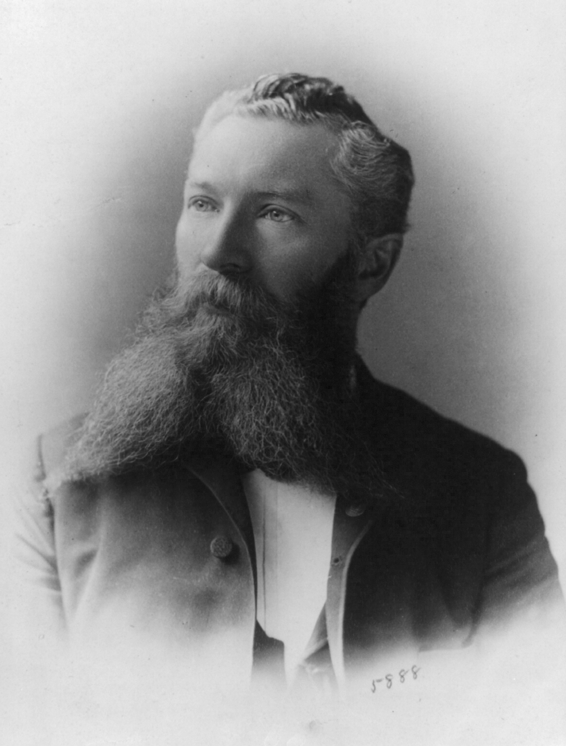 Portrait of Brevet Major General St. Clair Augustine Mulholland, United States Army. He fought in the American Civil War and received the Medal of Honor.